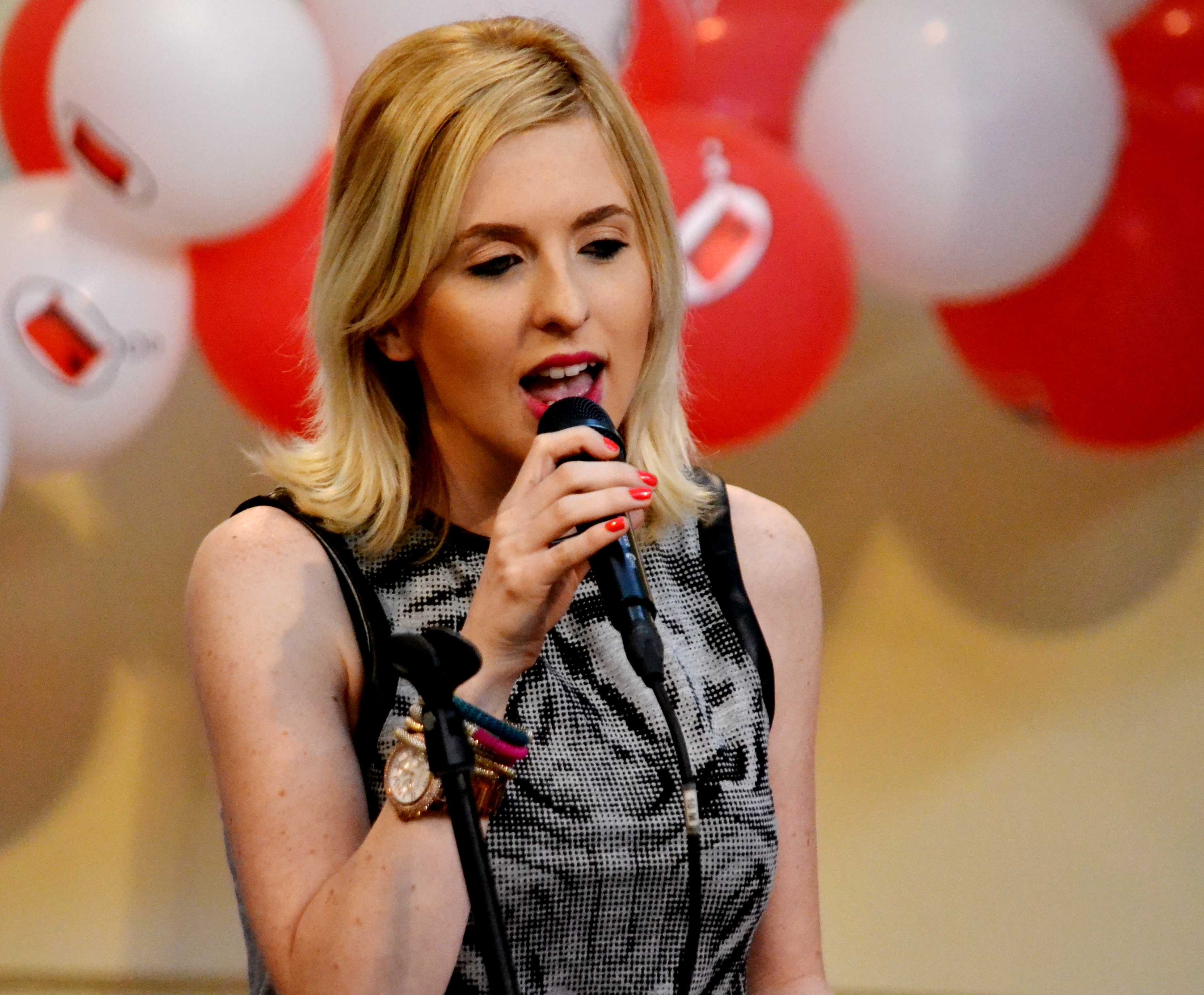 Jiřina Jandová, Czech vocalist